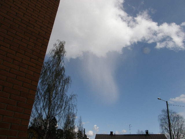 Cumulonimbus virga cloud. There are sreaks on rain under cumulonimbus clou, but rain does'nt reach ground, beacause it evaporates.